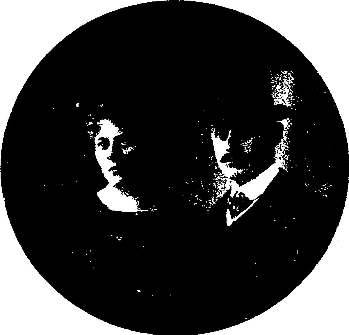 Albert Mallinson (1878-1946) and his wife Anna Sophie Balmson Steinhauer (1858-1949) in 1908